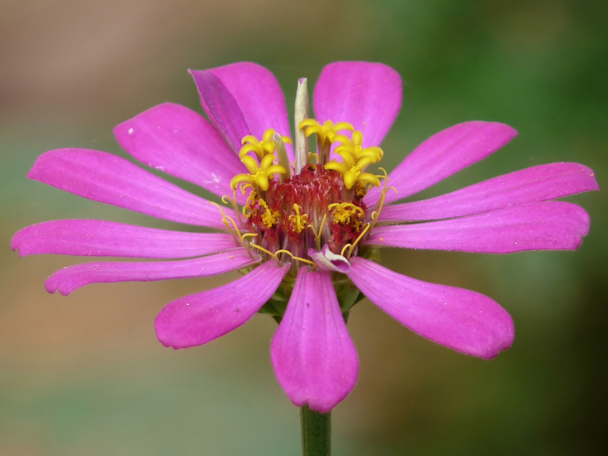 Zinnia elegans, Common zinnia, Youth-and-old-age, is an annual flowering plant of the genus Zinnia, is one of the best known zinnias. The uncultivated plant grows to about 30 in (76 cm) in height. It has solitary flower heads about 2 in (5 cm) across on stems resembling daisies. The purple florets surround black and yellow discs. The lanceolate leaves are opposite the flower heads. Wild Zinnia elegans is a desert plant found in Mexico. Garden varieties may escape and naturalise. The species was collected in 1789 at Tixtla, Guerrero, by Sessé and Mociño. It was formally described as Zinnia violacea by Cavanilles in 1791. Jacquin described it again in 1792 as Zinnia elegans, which was the name that Sessé and Moçiño had used in their manuscript of Plantae Novae Hispaniae, which was not published until 1890.